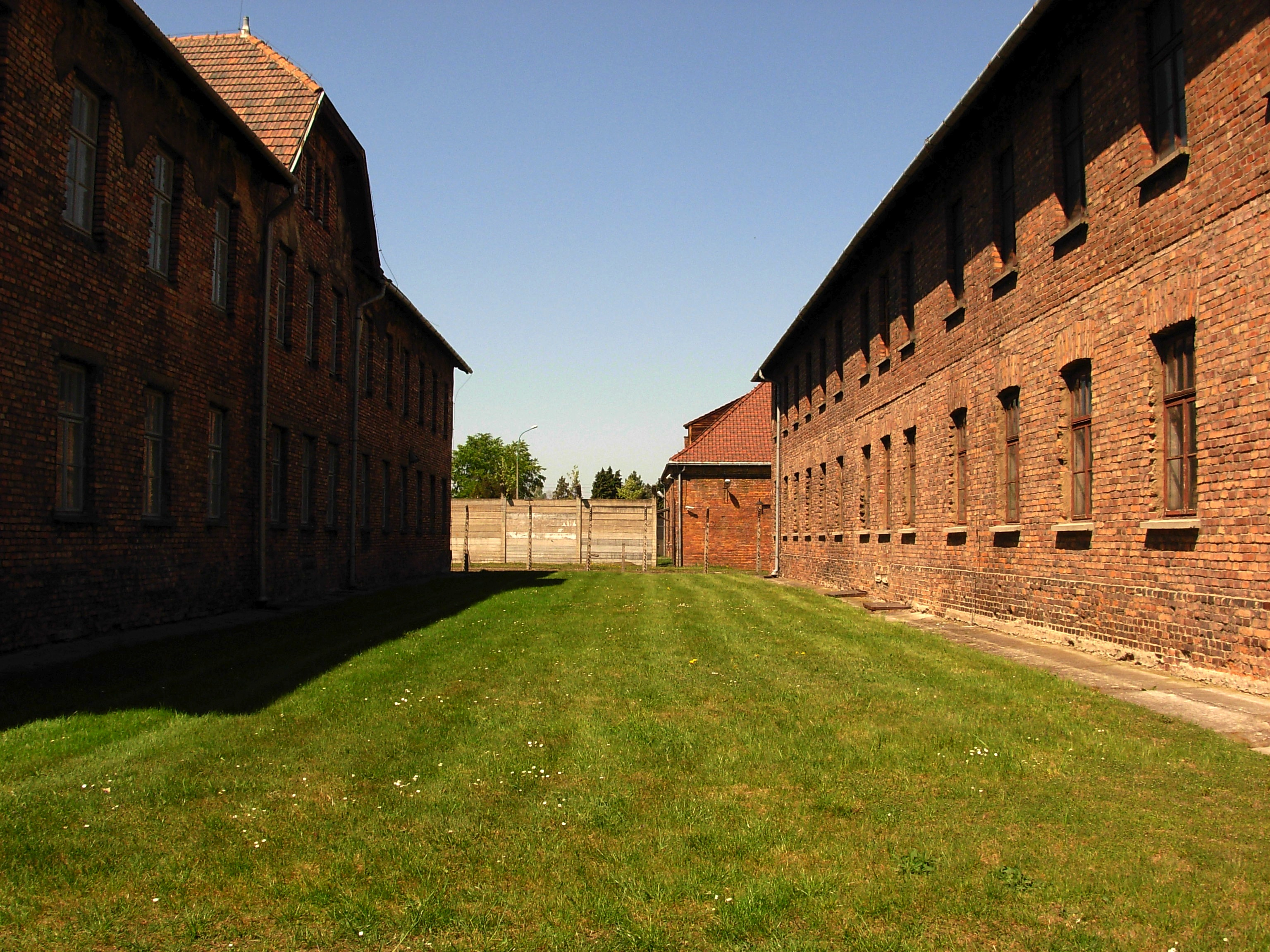 Baracks in Auschwitz concentration camp